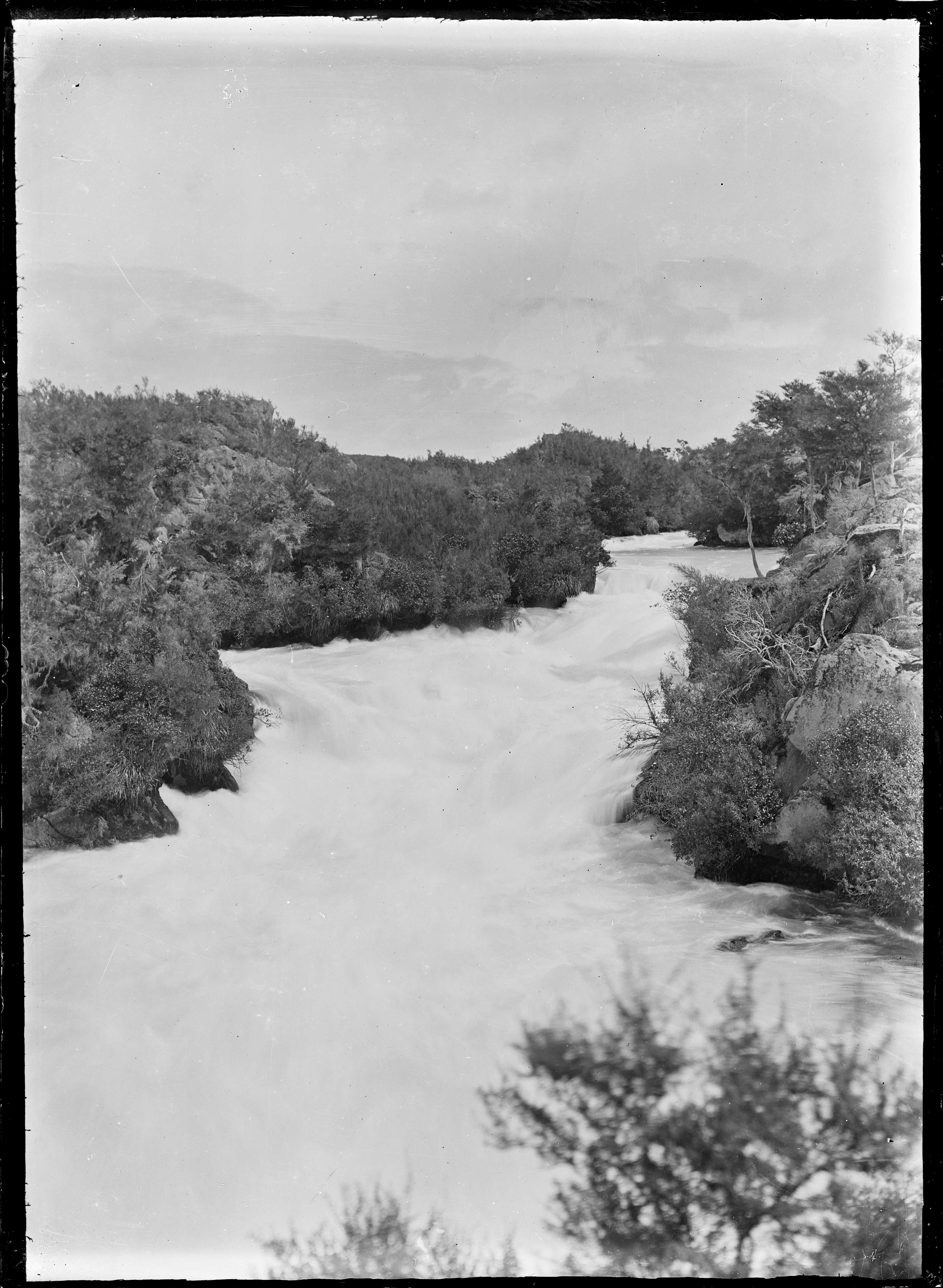 View looking up the Aratiatia Rapids on the Waikato River. Photographed by Albert Percy Godber in 1928.